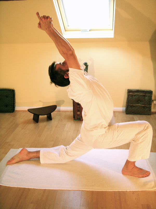 Yoga postures Godhapitham